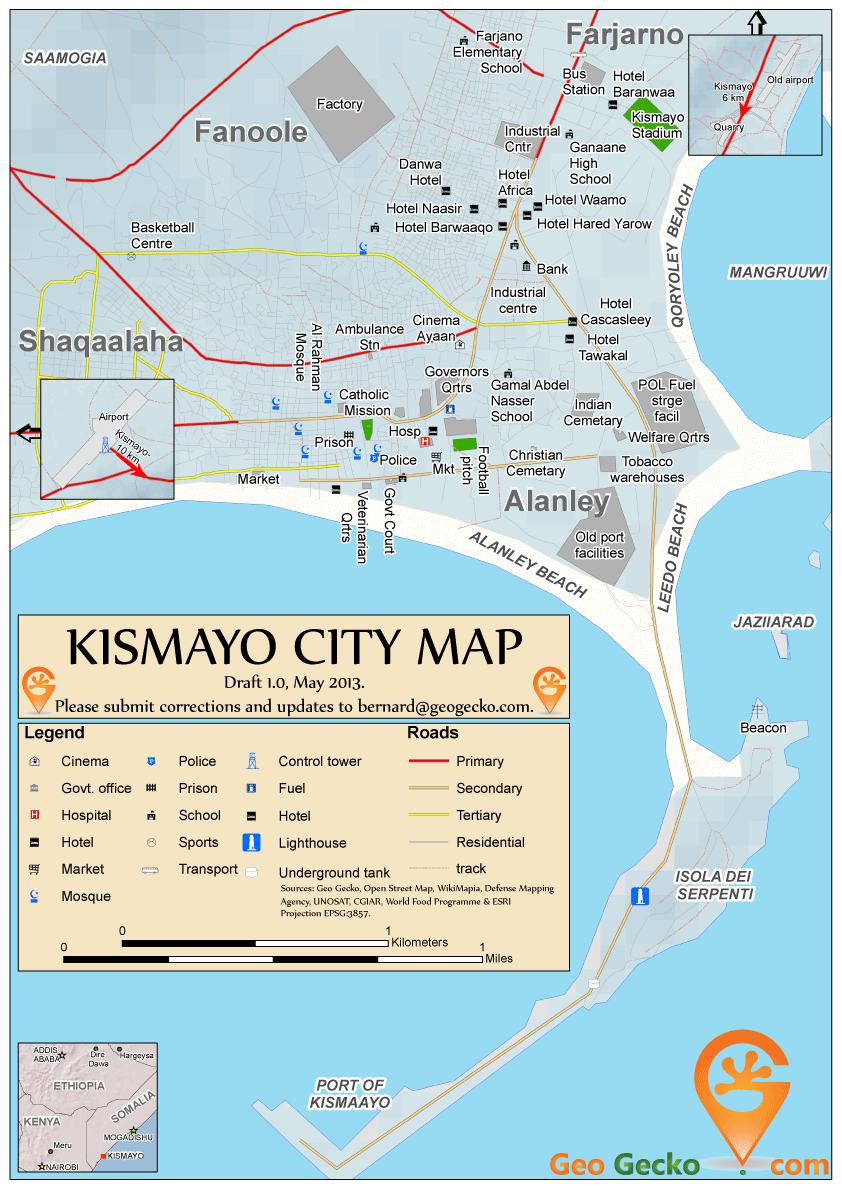 One map of Kismayo city. This is the